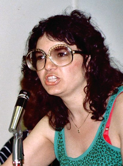 Melinda Gebbie at the Women In Comics panel at the 1982 San Diego Comic Con (today called Comic-Con International). NOTE: Permission granted to copy, publish, broadcast or post any of my photos, but please credit "photo by Alan Light" if you can. ThanksWomen In Comics panel